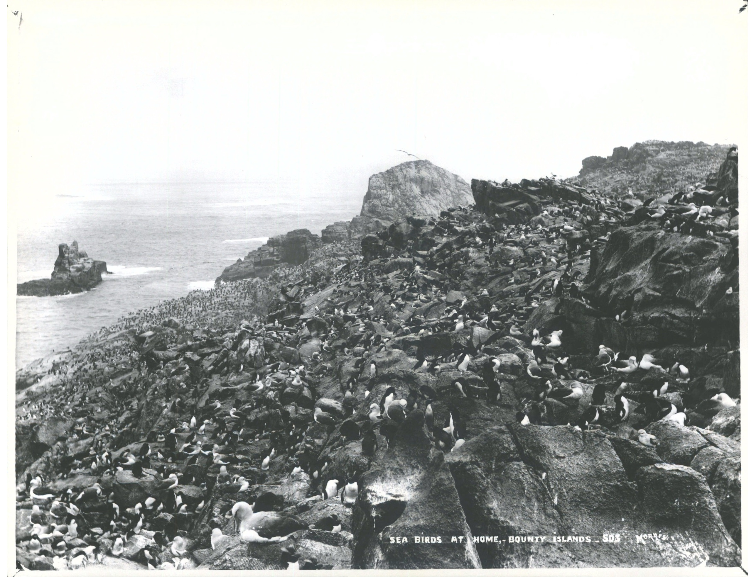 The southern flank of Depot Island, covered with birds (Bounty Islands, New Zealand). At left is Dog Rock.